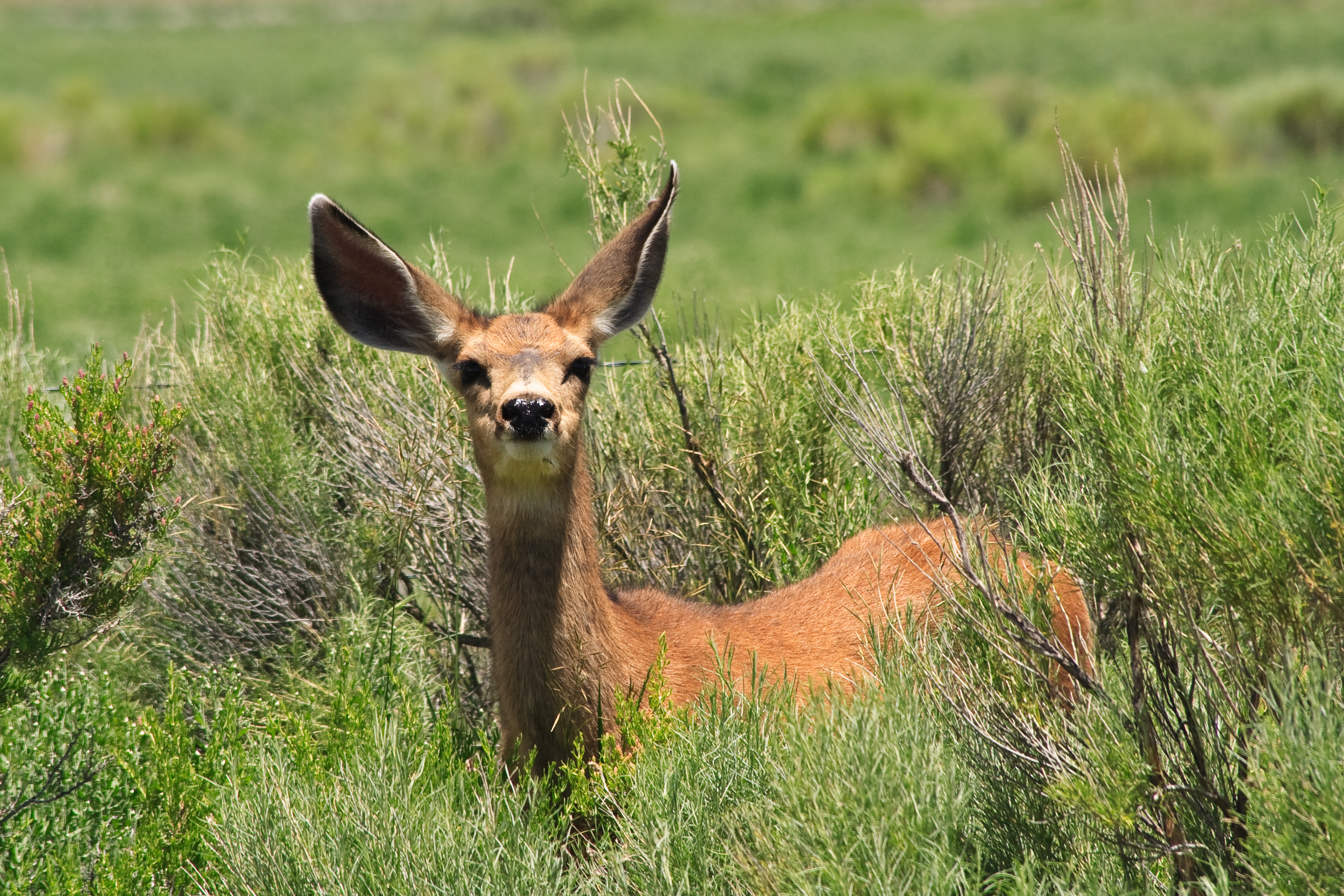 Mule deer seen in Saguache County, Colorado U.S.A.